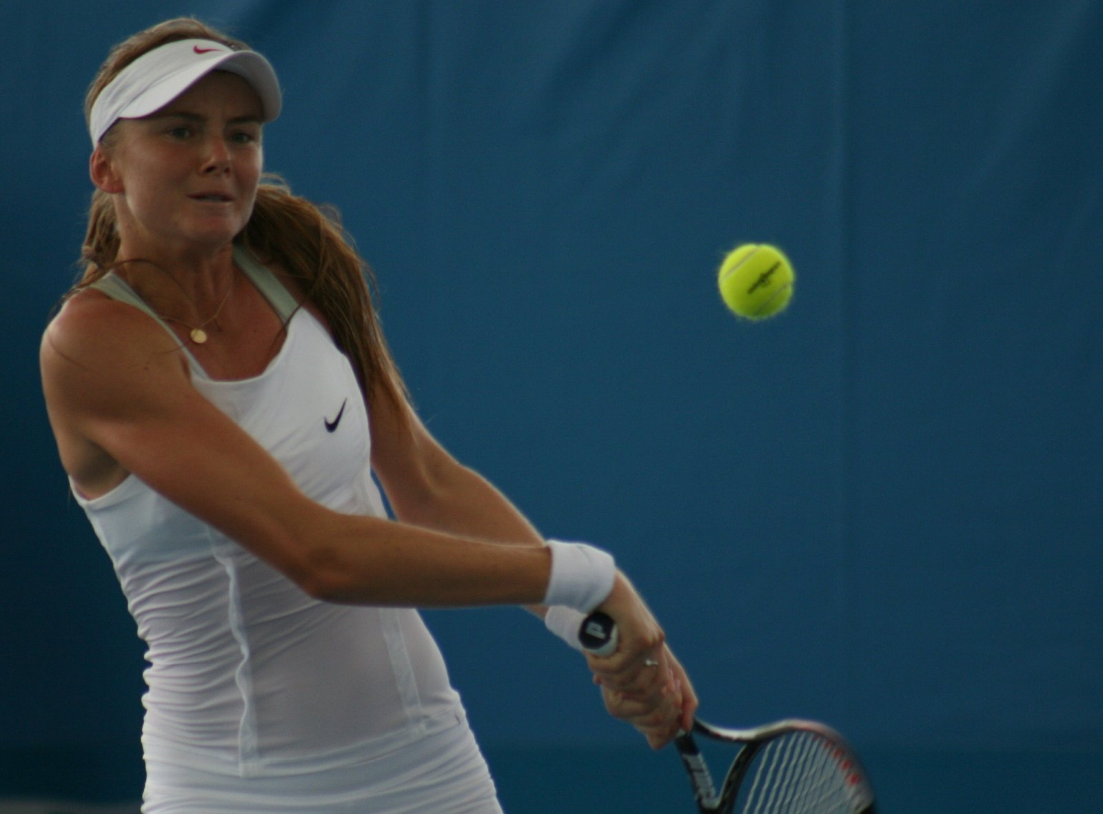 Daniela Hantuchová at the 2009 Brisbane International